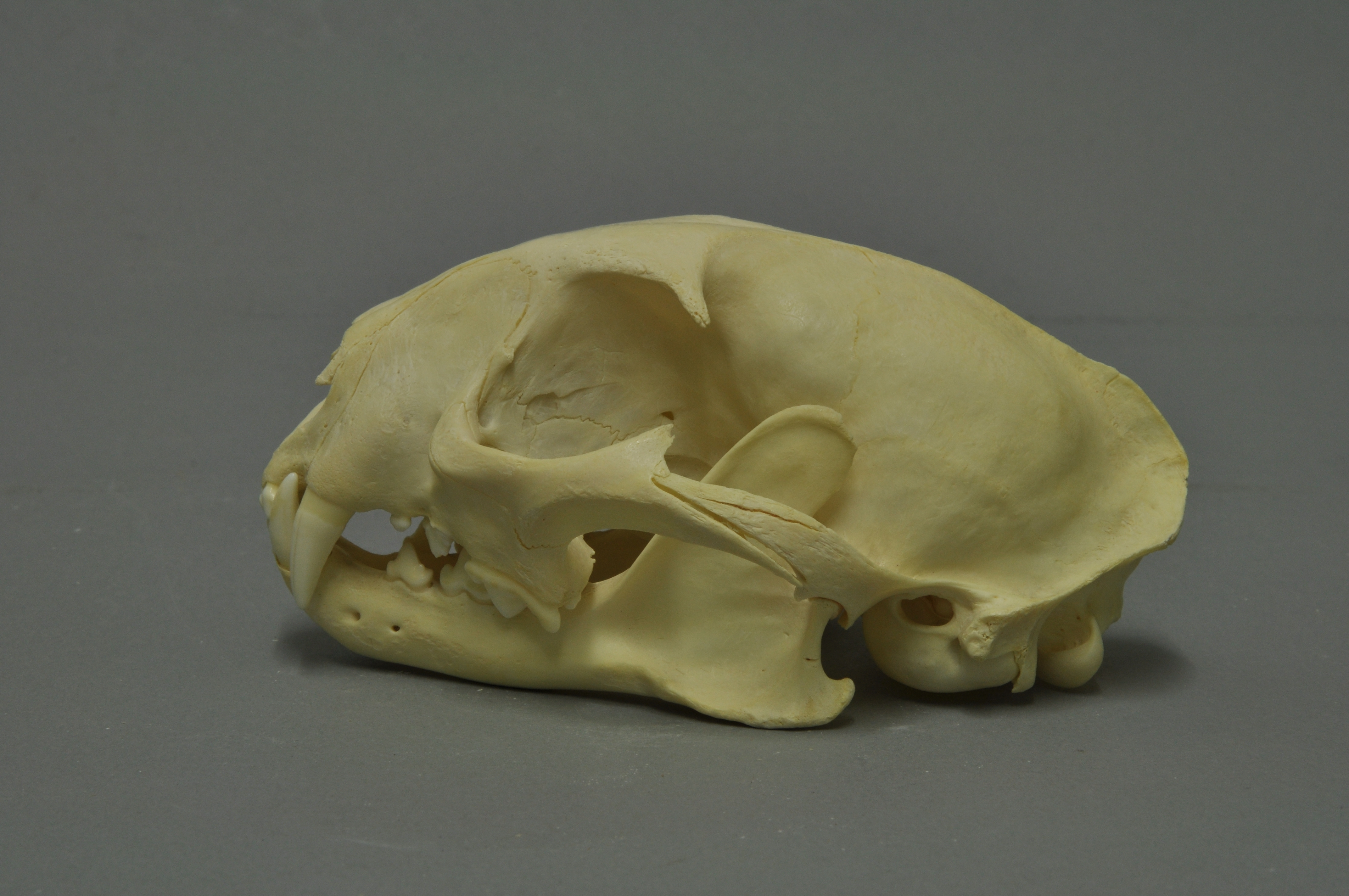 African golden cat Profelis aurata, skull, Coll. Museum Wiesbaden